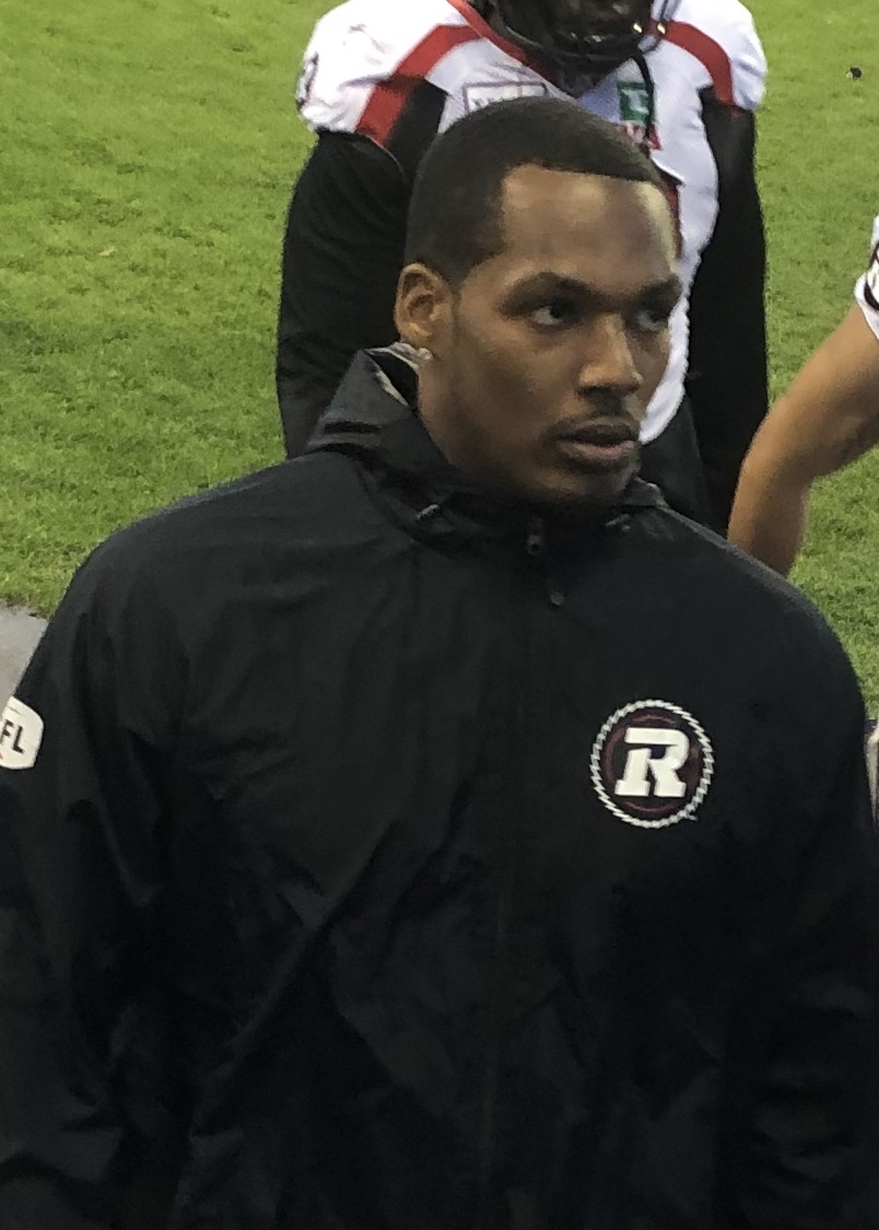 Dominique Davis, quarterback for the Ottawa Redblacks.